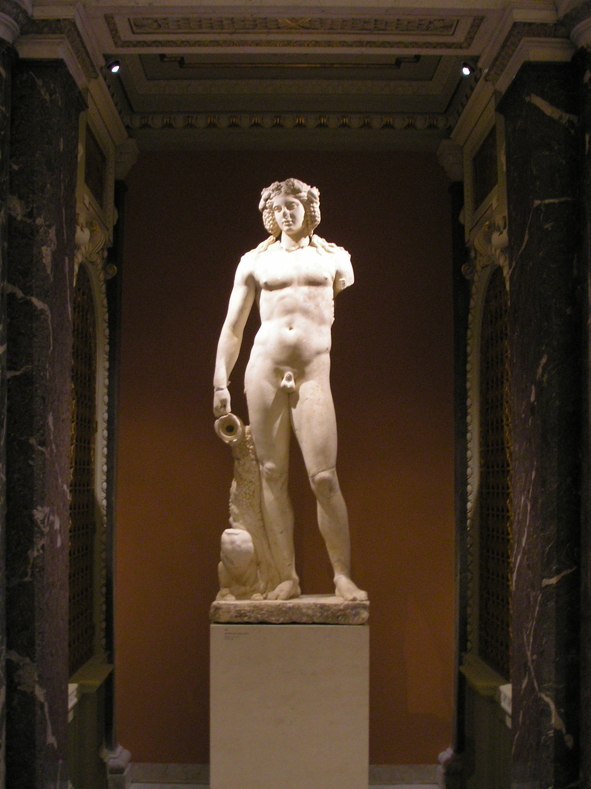 Ancient Roman statue of Bacchus, in the Collection of Greek and Roman Antiquities in the Kunsthistorisches Museum, Vienna.